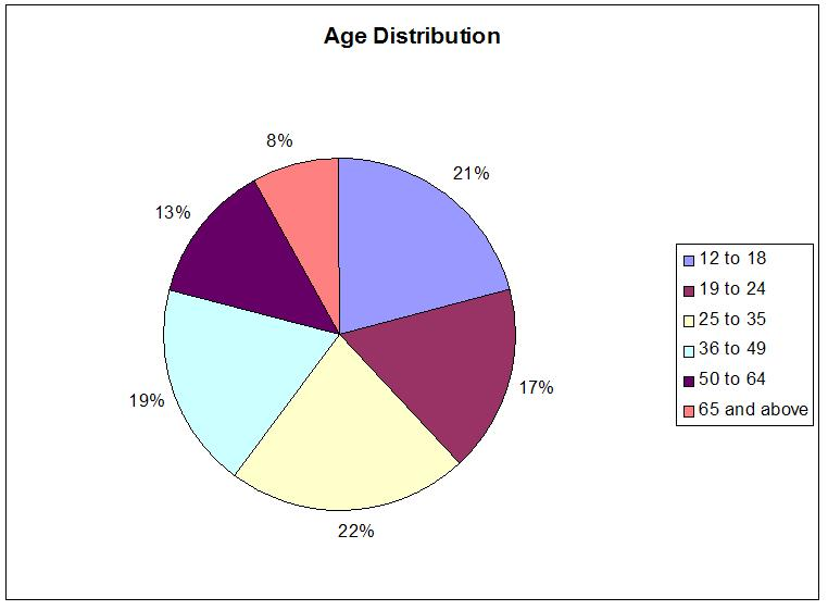 Age Distribution Brunstad Christian Church